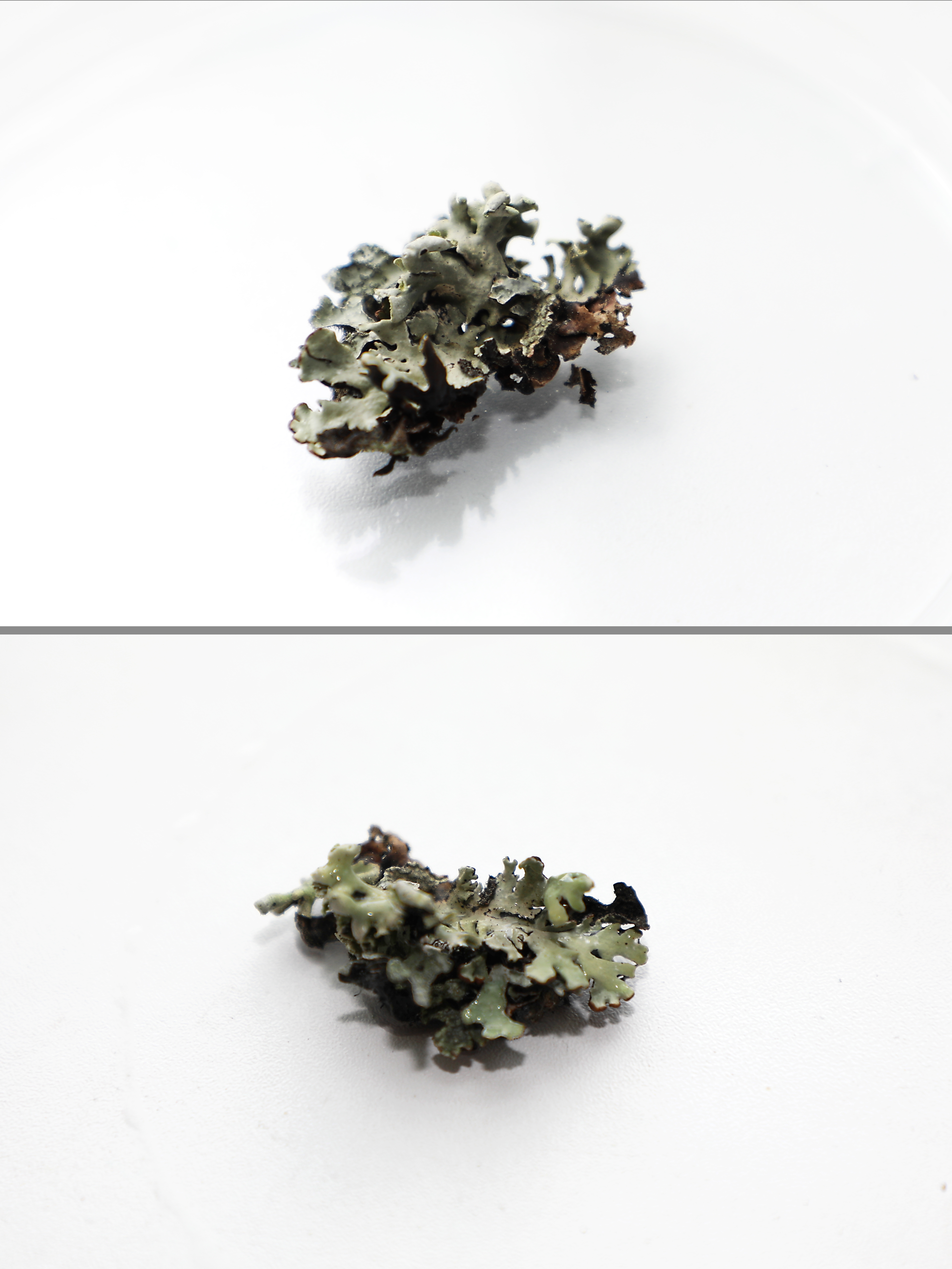 Lecanora - A Genus Of Lichens. On top of the photos, the dry lichen, the below photo after the drops of water. Lecanora gradually dissolved and swells.